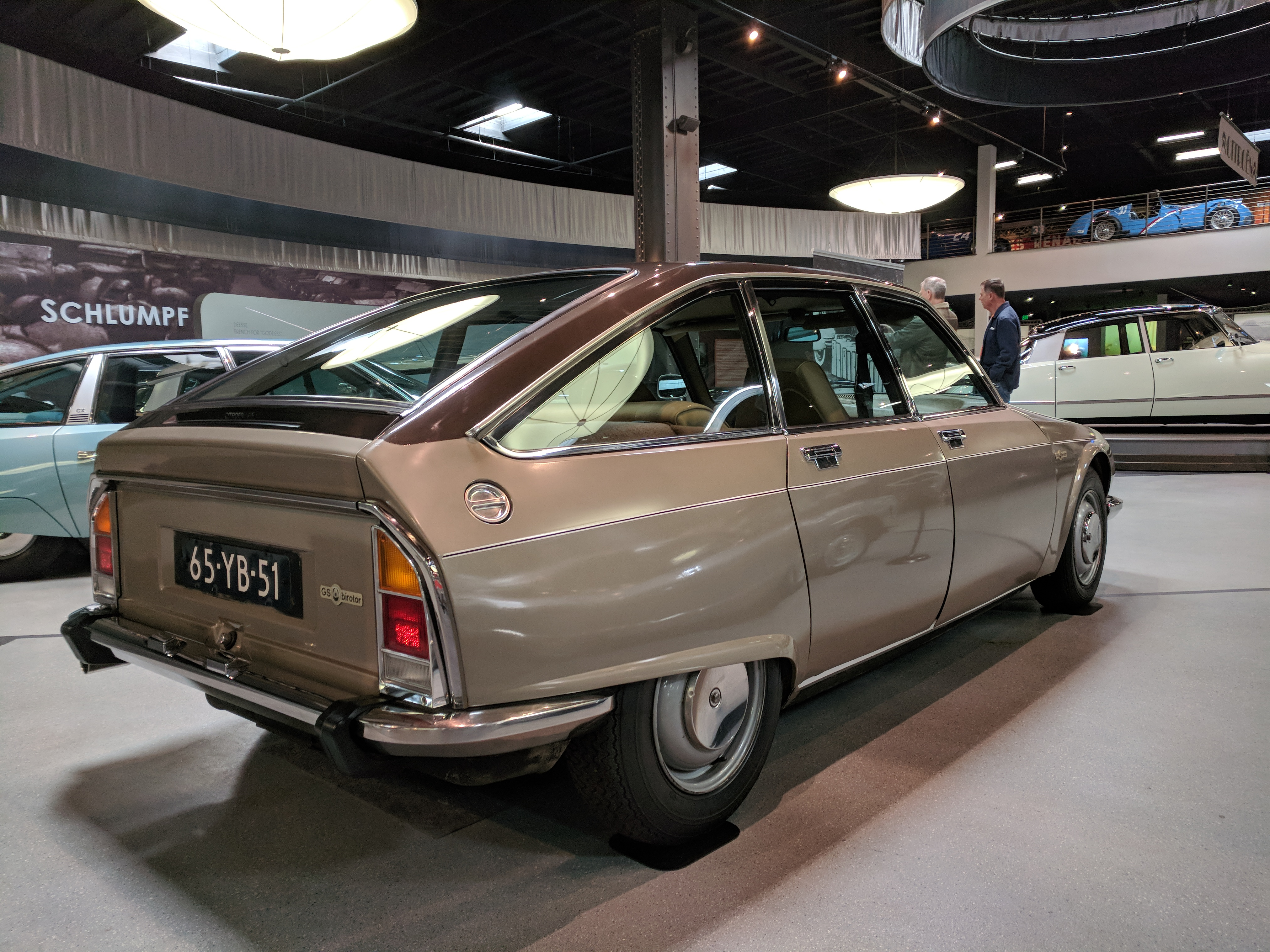 Citroën GS Birotor Mullin Museum Oxnard, California March 24, 2018